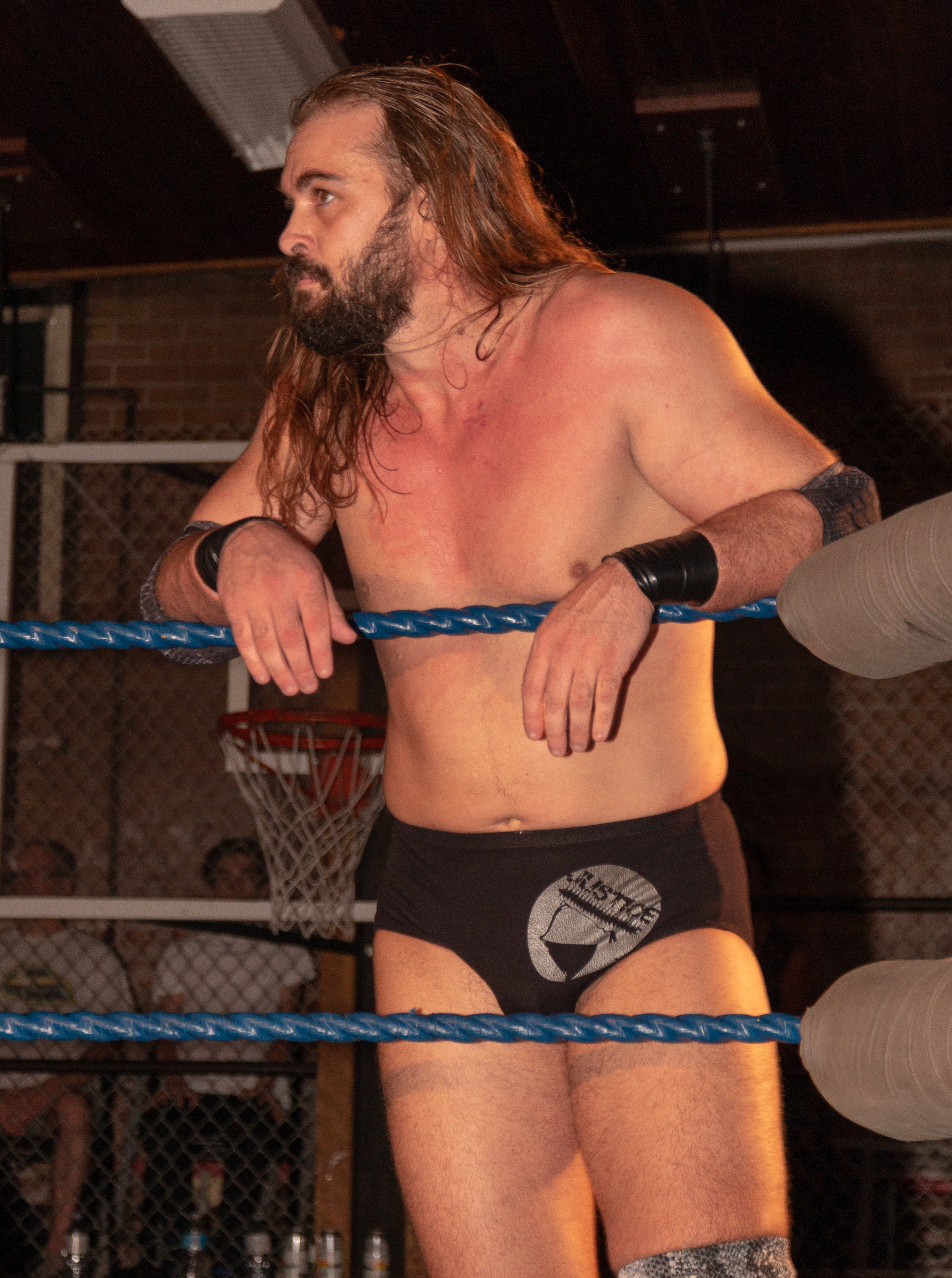 Independent wrestler Matthew Justice at a Greektown Wrestling show in Toronto, ON